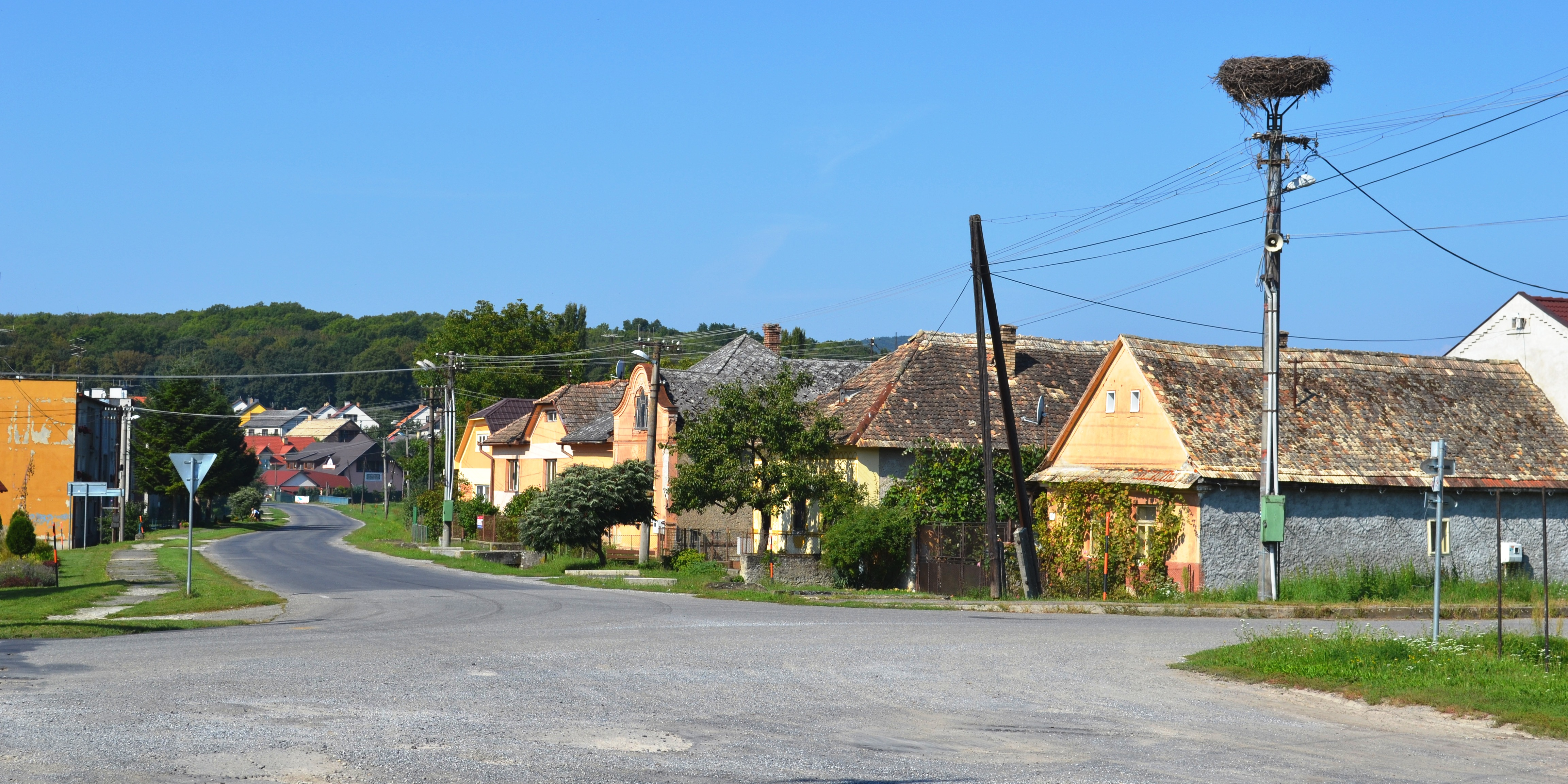 Street of the village in Teplý Vrch